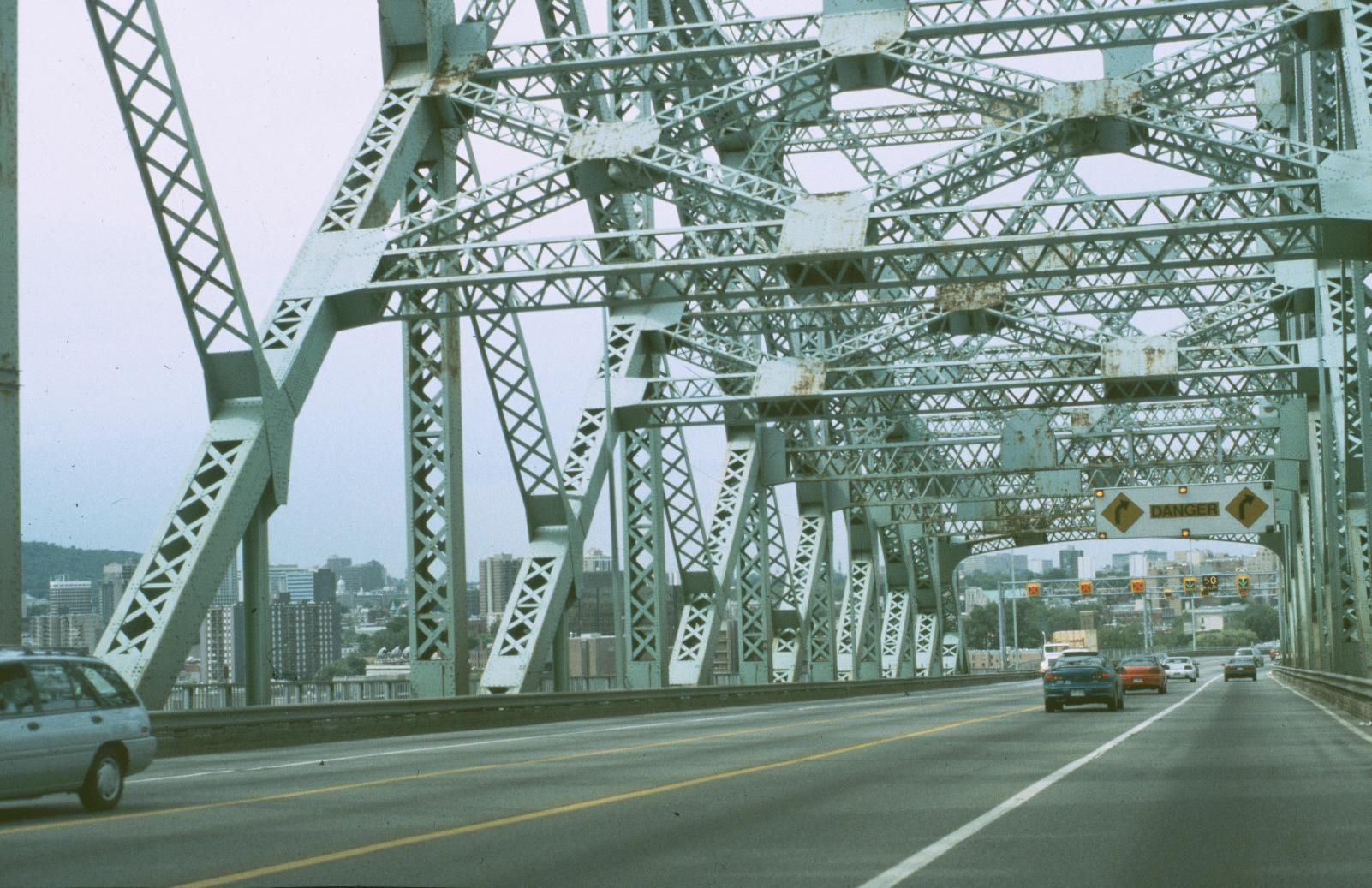 Jacques Cartier bridge in Montreal (Quebec, Canada)